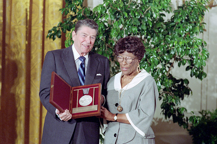 6/18/1987 President Reagan presenting the National Medal of Arts to Ella Fitzgerald at a Luncheon in East Room